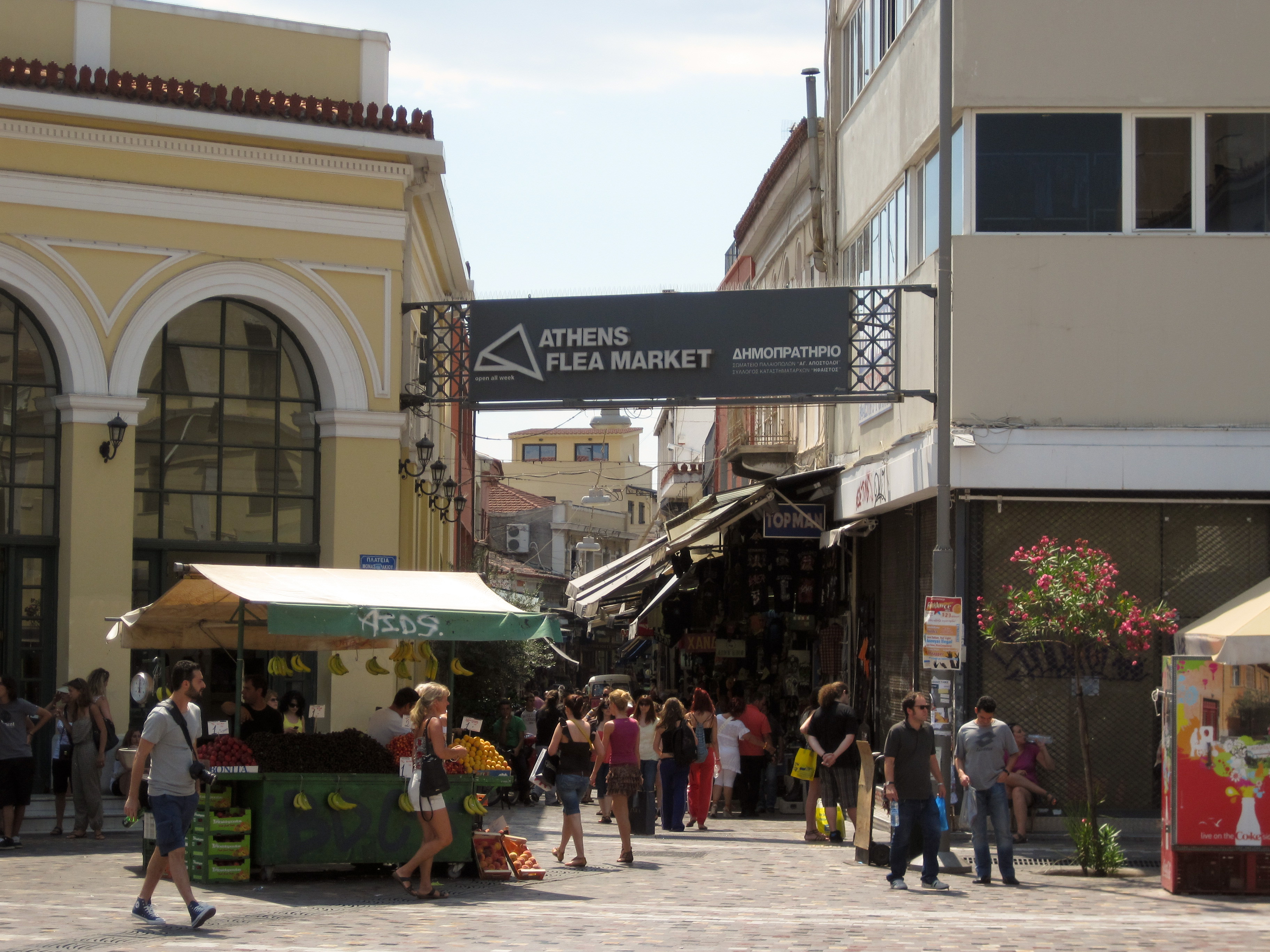 Flea Market at Monastiraki.